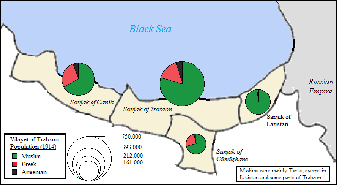 Population of the vilayet of Trabzon. Based on the Ottoman census of 1914.